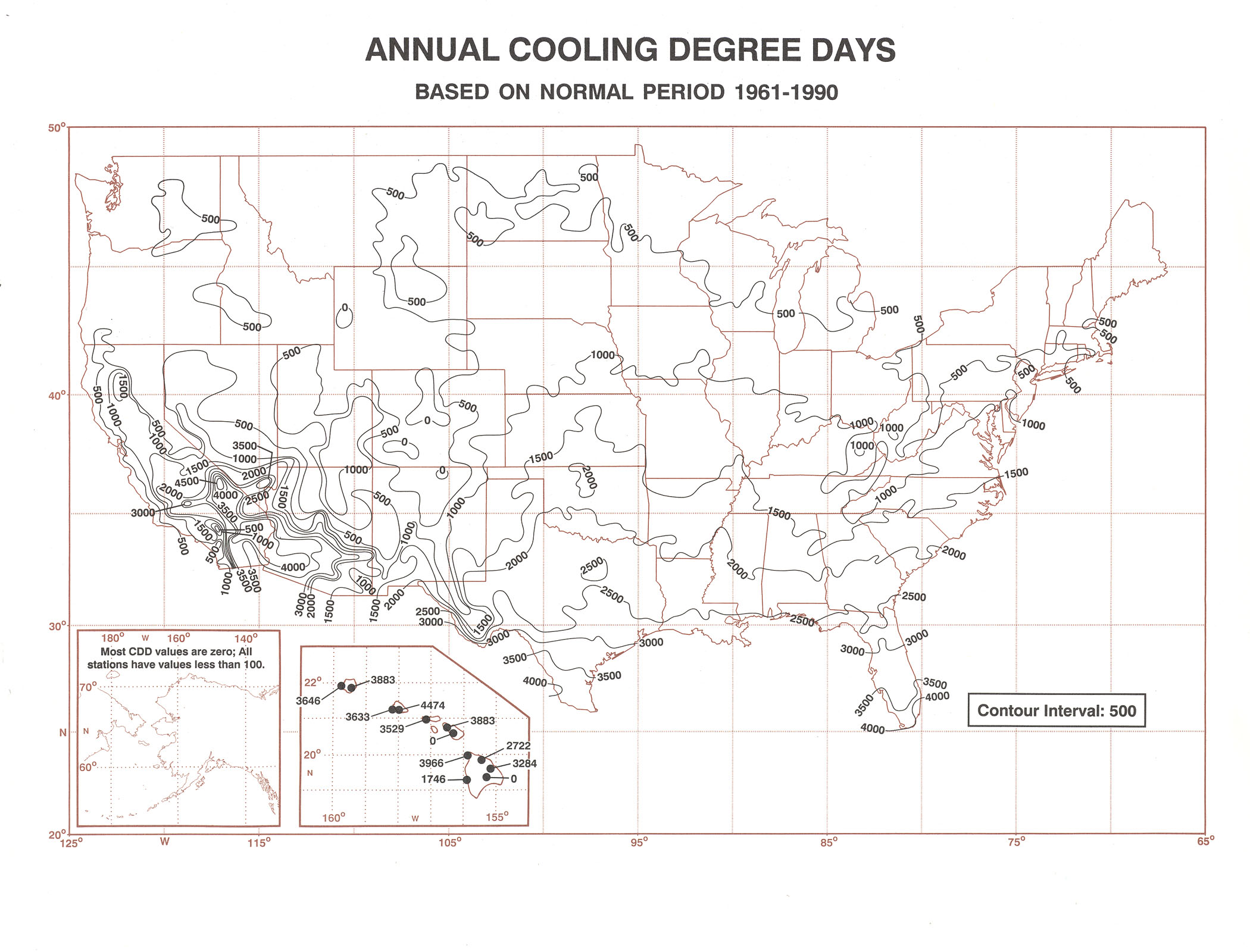 Annual cooling degree days in the United States, based on normal period 1961-1990.